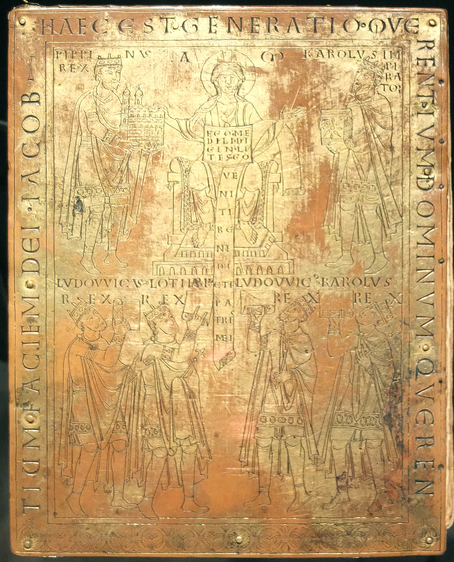 Liber aureus from Prüm, Eifel (Germany), a 10th-12th century Carolingian collection of documents, gilded binding showing Christ in the middle, Pippin the Younger (l.) and Charlemagne (r.), below later Carolingian rulers. Schatzkammer of Stadtbibliothek Trier (Germany). Lit.: Michael Embach: Hundert Highlights. Kostbare Handschriften und Drucke der Stadtbibliothek Trier. Schnell & Steiner, Regensburg 2013, ISBN 978-3-7954-2750-4, Nr. 92.